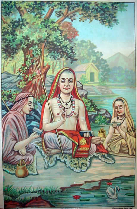 "Shri Shankaracharaya," by the Chitrashala Press, Poona, 1920's Source: ebay, Mar. 2006